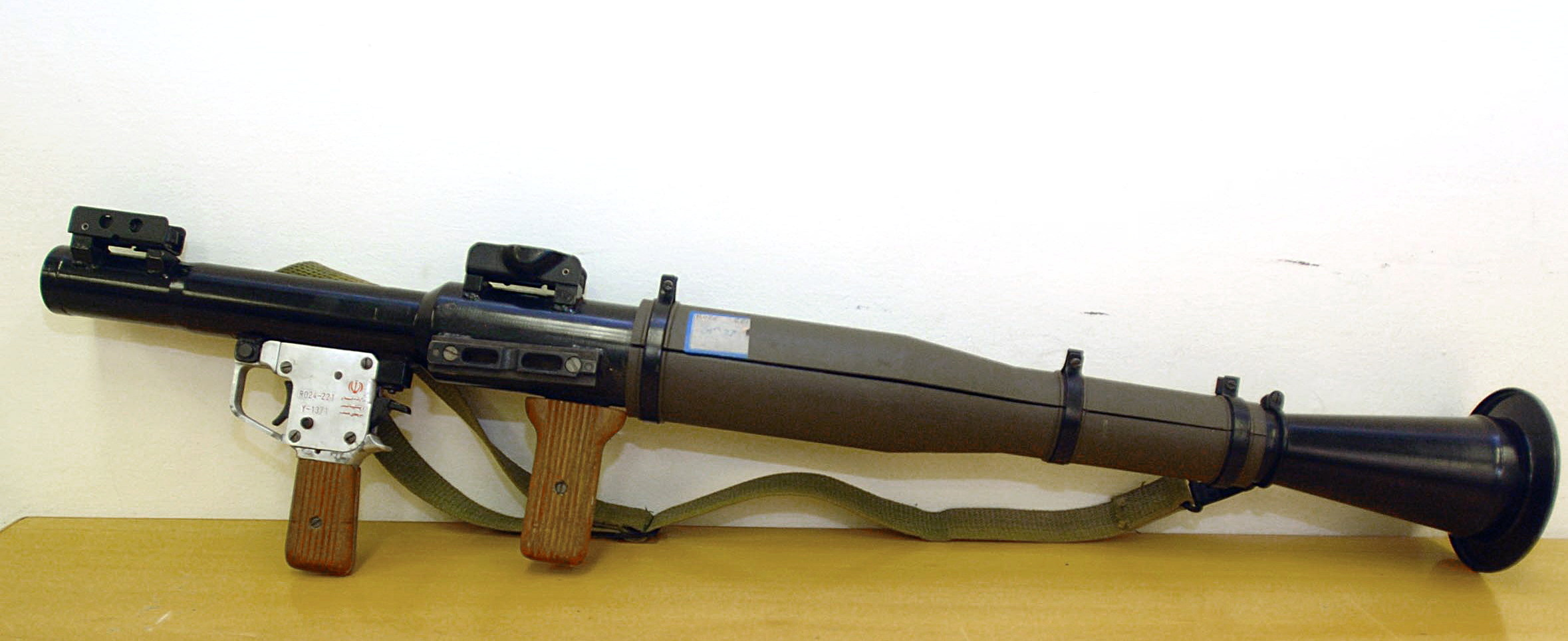 July 23, 2006 An RPG missile found in Lebanon with a manufacturing symbol of the Iranian Army displayed by the IDF intelligence branch.